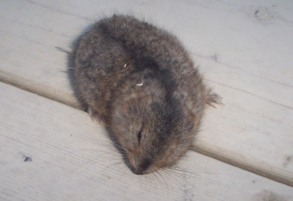 North American Brown Lemming (Lemmus trimucronatus)